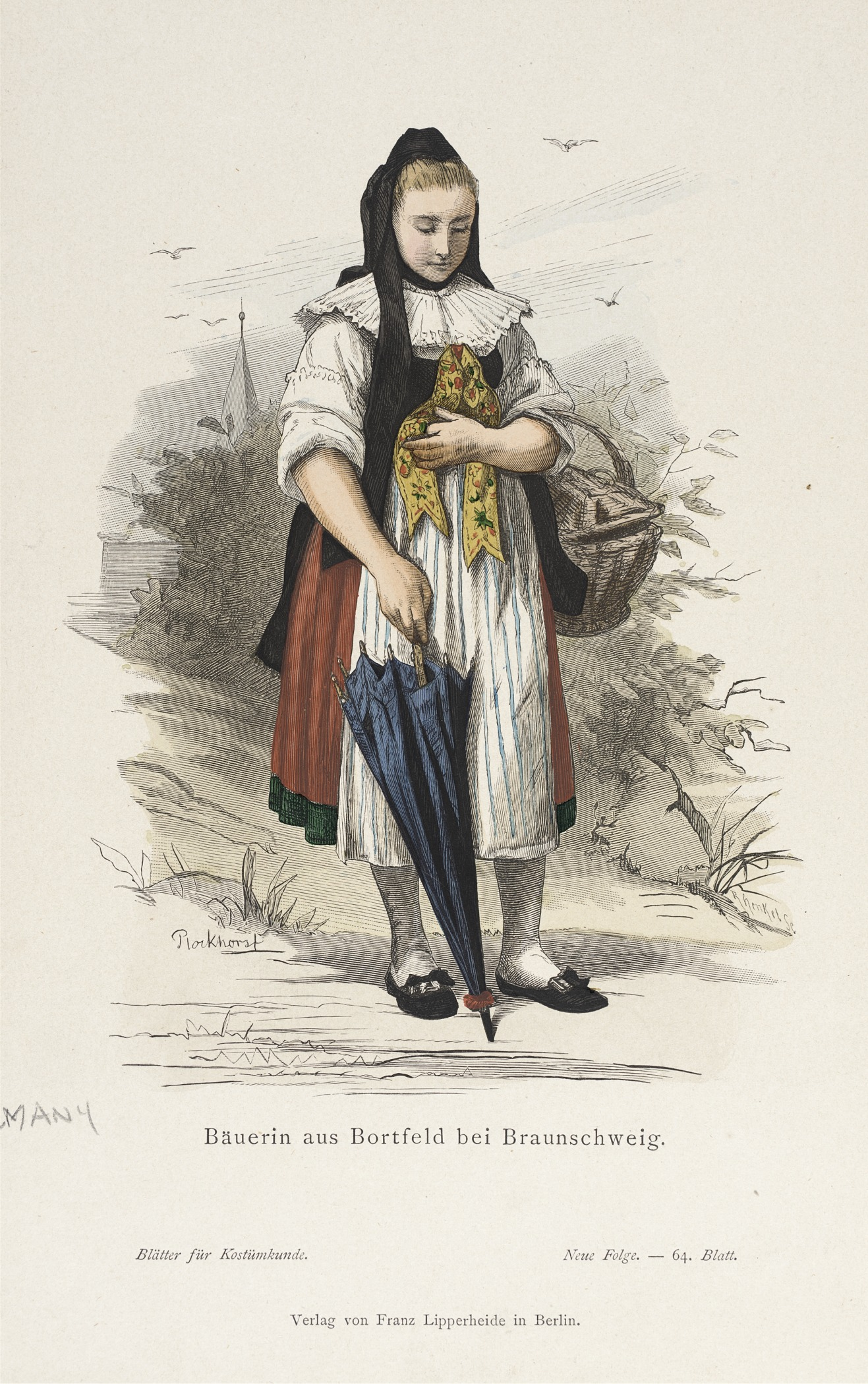 Germany, Berlin, 19th century Prints; lithographs Lithograph on paper Composition: 11 1/8 x 7 7/8 in. (28.26 x 20 cm) Gift of Charles LeMaire (M.83.161.102) Costume and Textiles